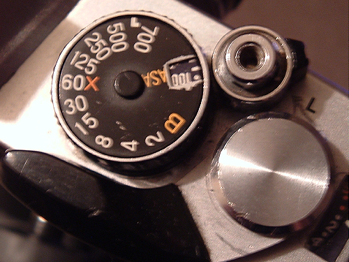 A digital picture of the shutter speed control, the shutter release, and the film advance lever of my Fujika STX-1. Digital camera I used: Fujifilm Finepix A210.